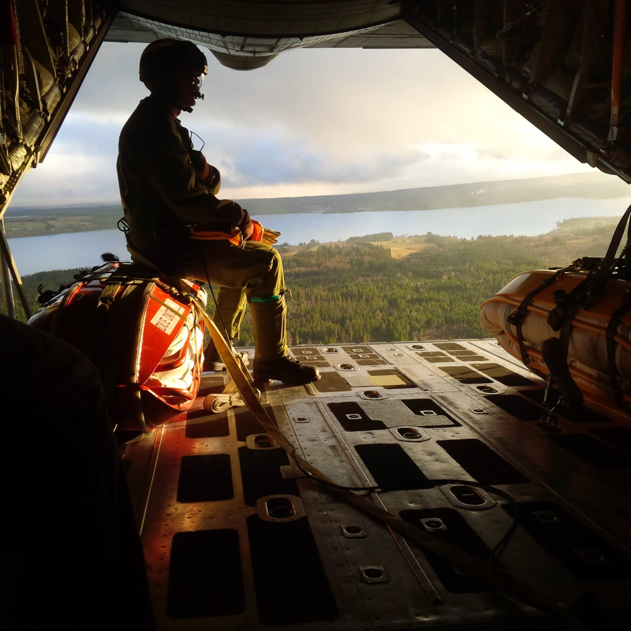 Anticipating a cargo launch. Royal Canadian Air force CC-130 Hercules on a flight training the non-profit Civil Air Search and Rescue Association (CASARA) members as spotters. 413 Transport and Rescue Squadron is an air force squadron of the Canadian Armed Forces. It currently operates the CC-130 Hercules and the CH-149 Cormorant in transport plus search and rescue roles at CFB Greenwood.